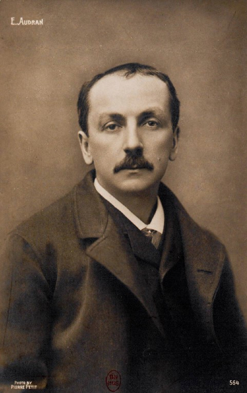 Edmond Audran (1842-1901), French composer